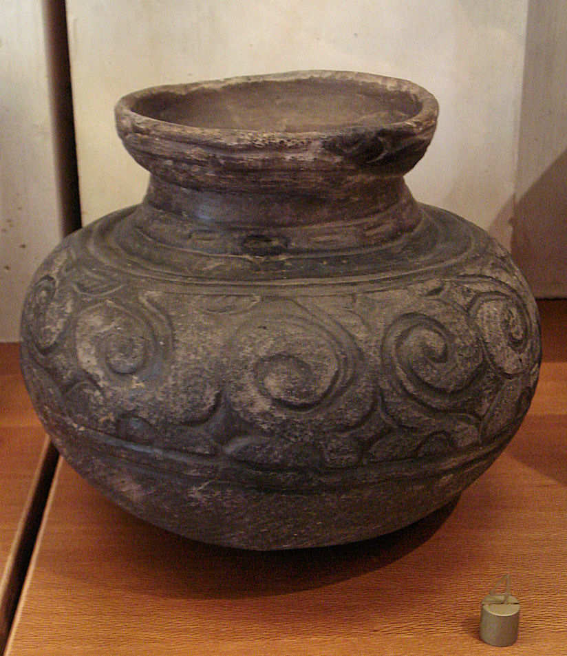 Jar With Spirals. Final Jomon, Kamegaoka Style